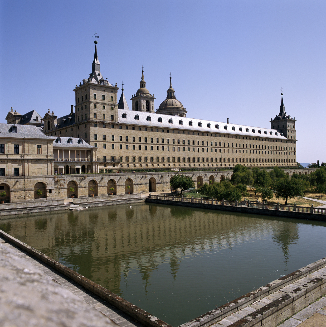 Monastery and Site of the Escurial, Madrid (Spain)